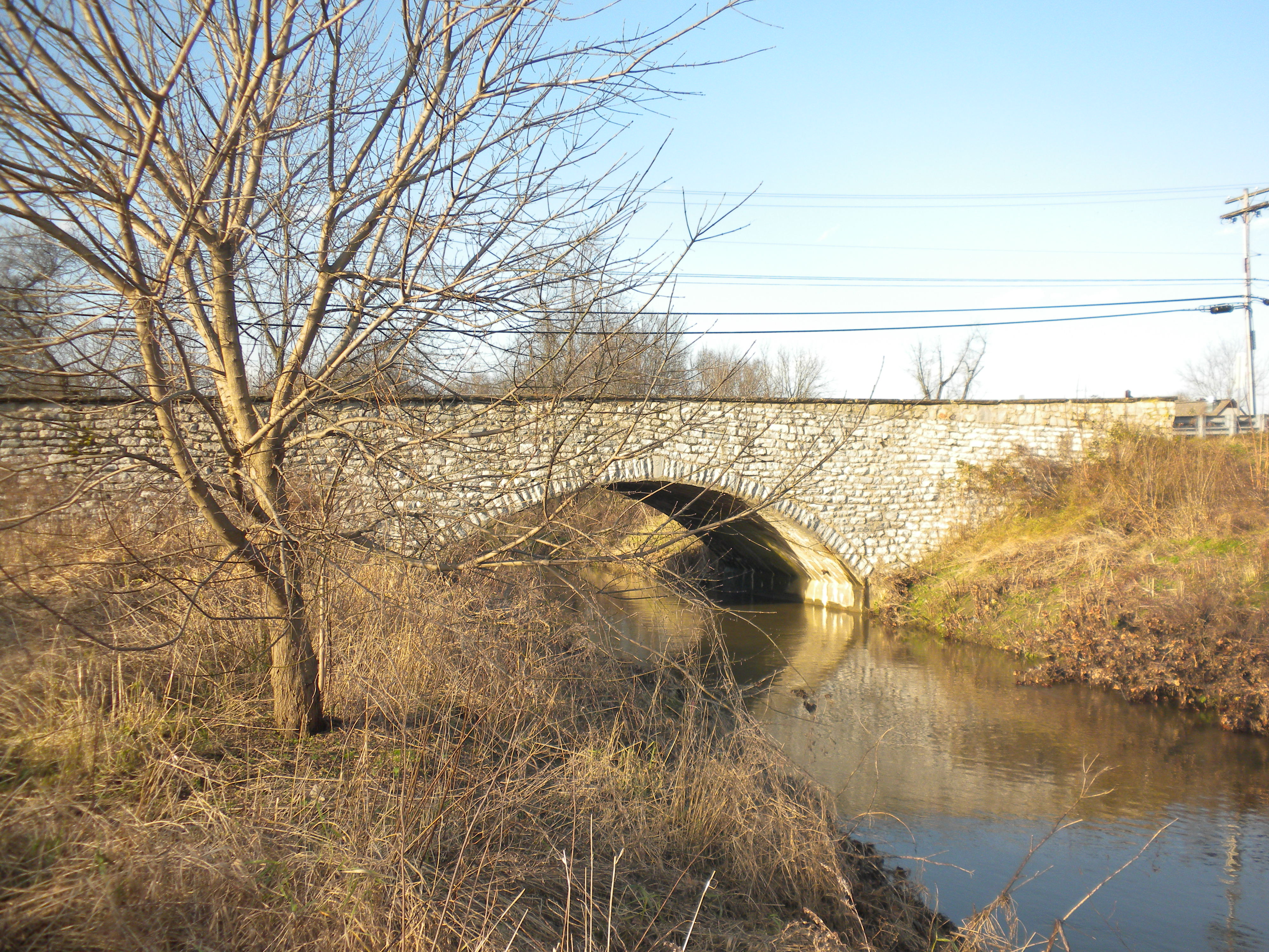 Bridge number 148 in Chester County, PA Built 1911 on NRHP.